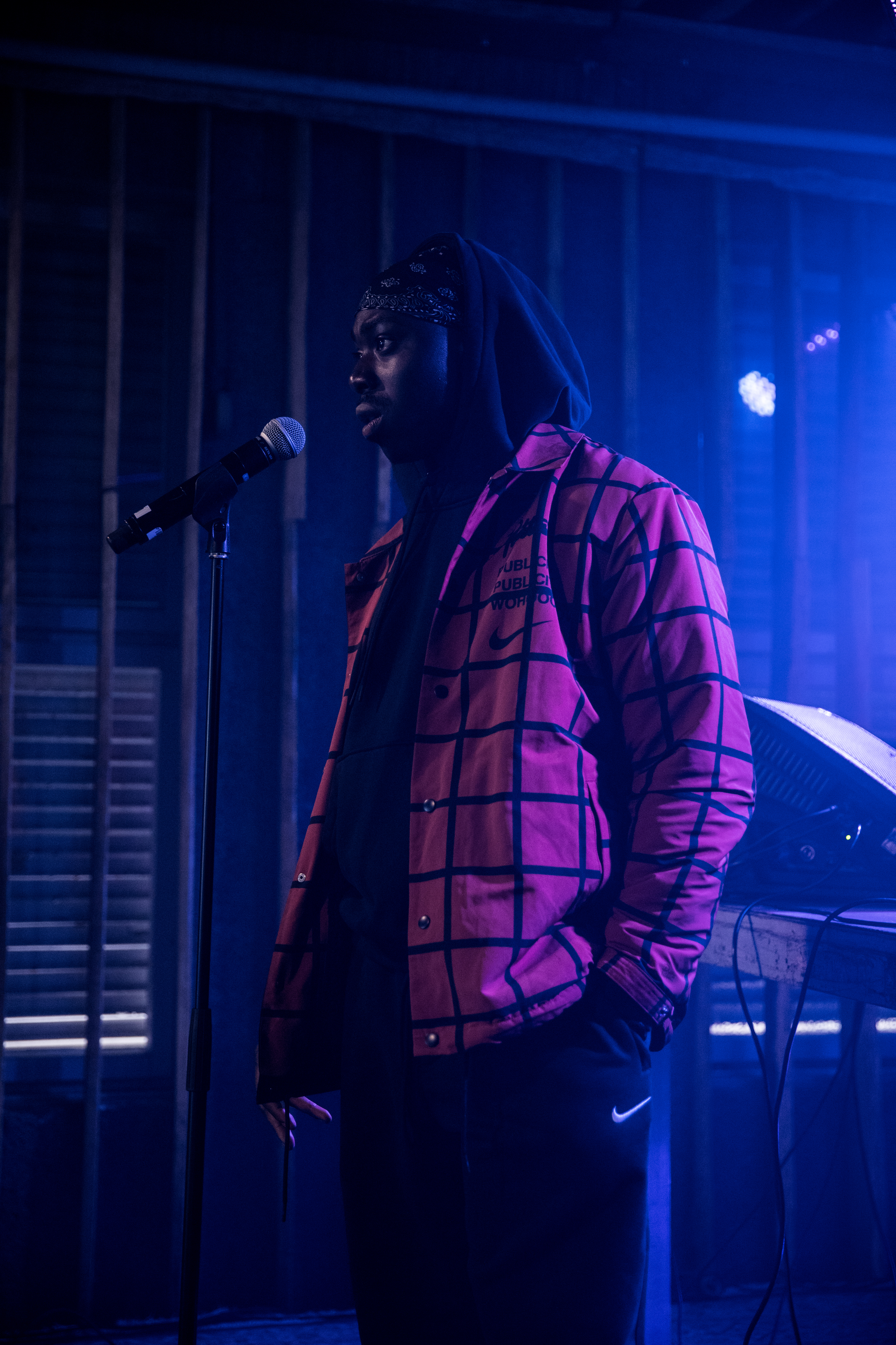 Rapper Serious Klein during rehearsals for an upcoming concert.